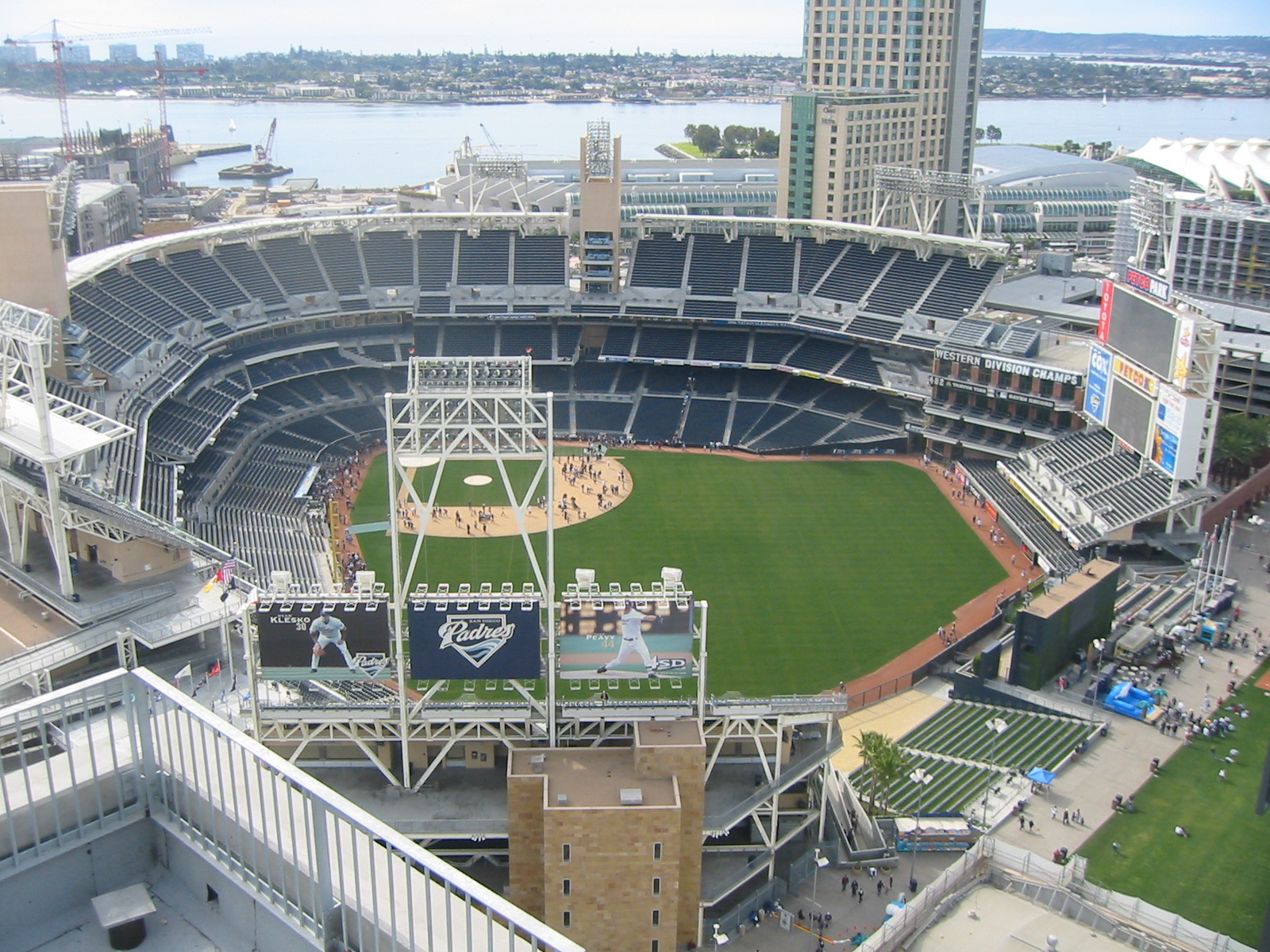 Petco Park